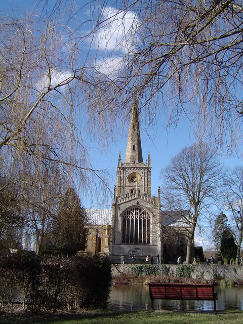 Holy Trinity Church, Stratford upon Avon View from the opposite bank of the River Avon